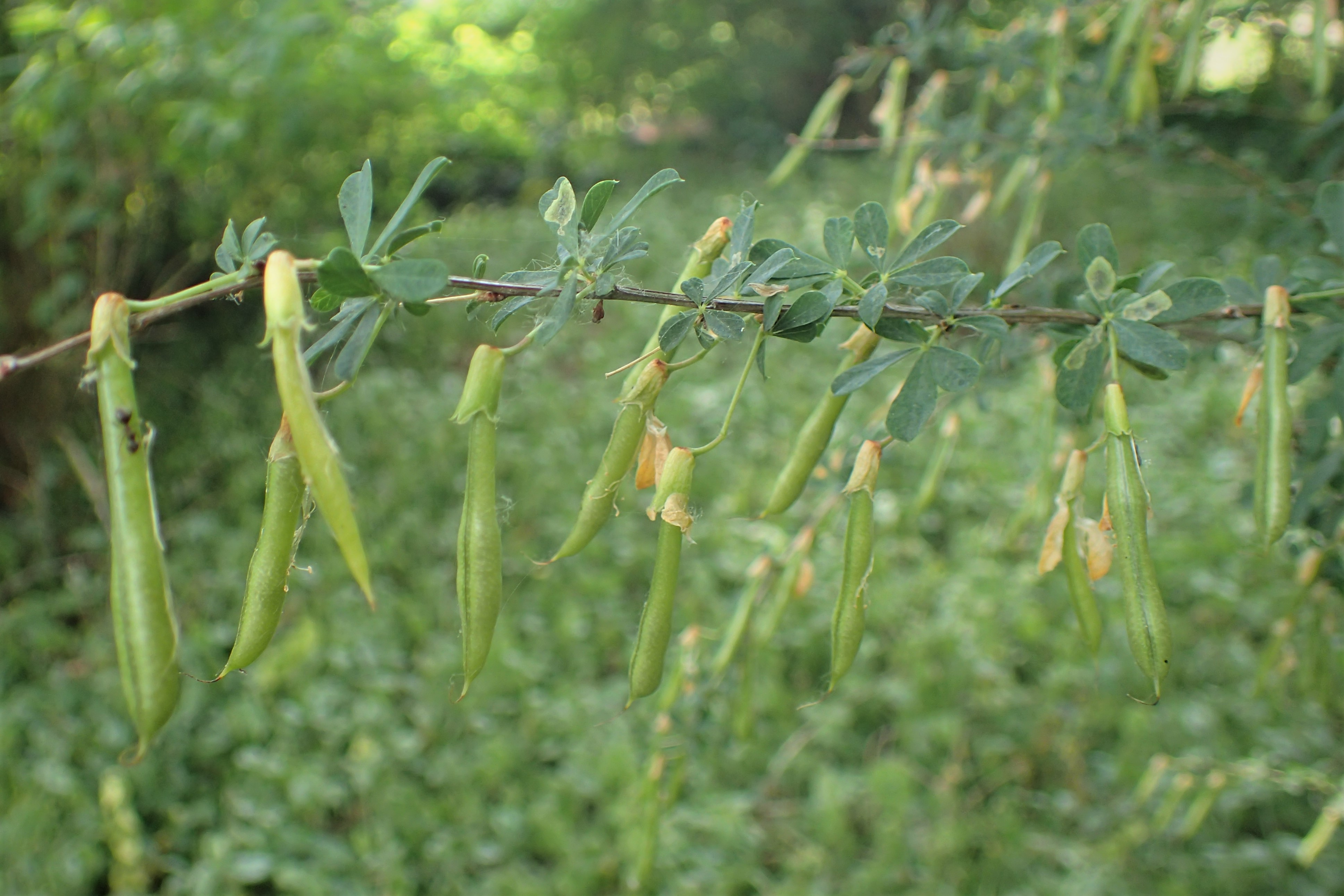 Caragana frutex in botanical garden in Poznań